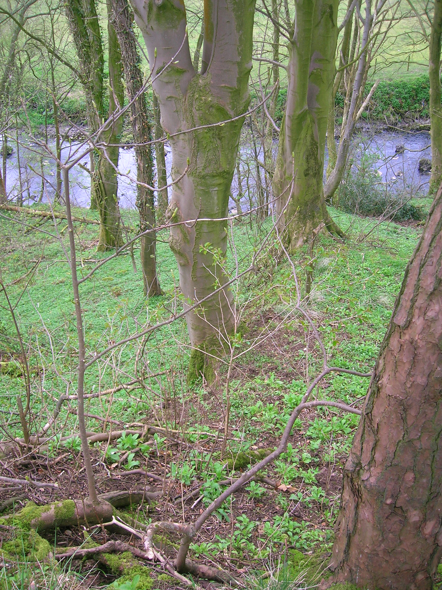 The march dyke at Lambroughton, Ayrshire, Scotland.